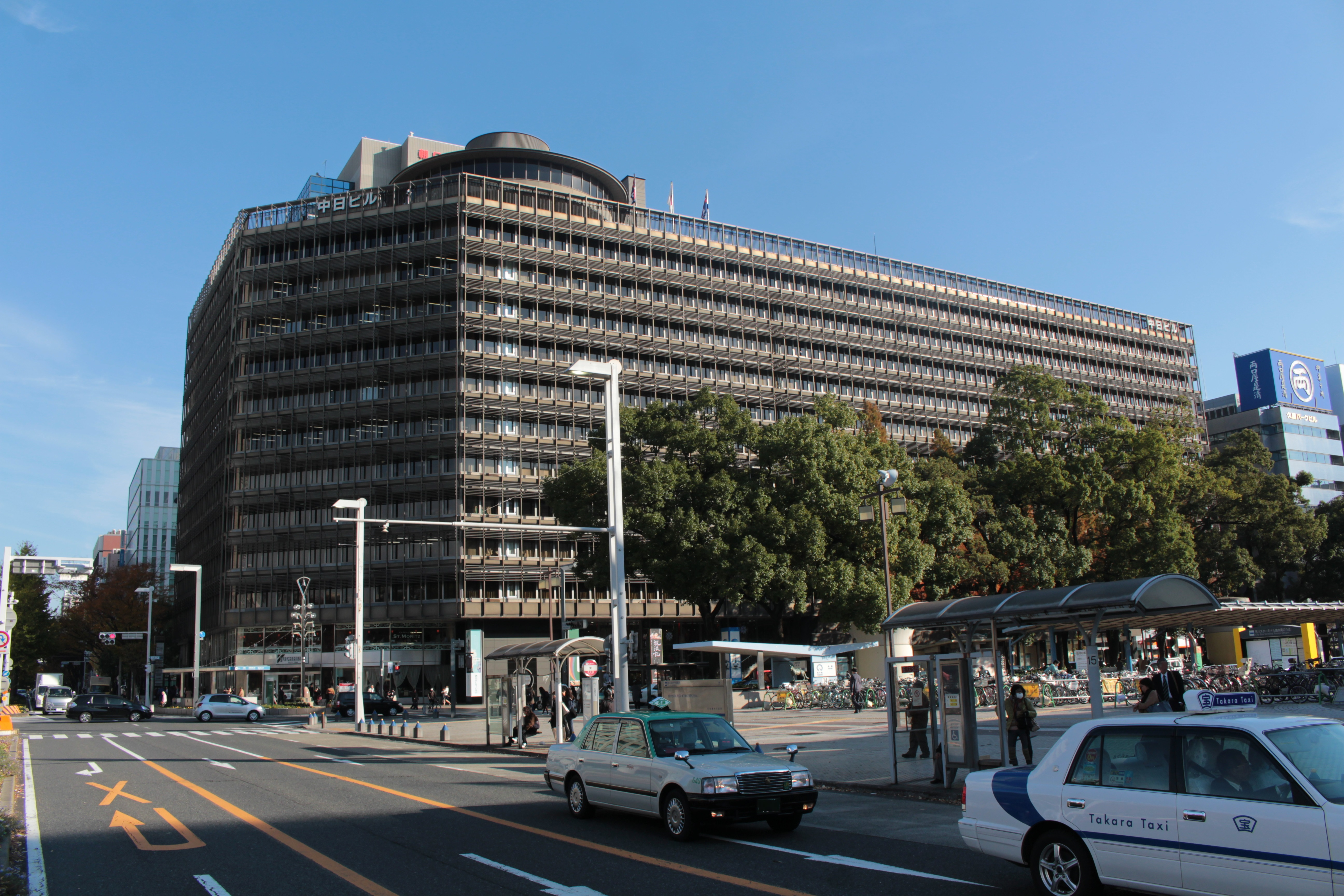 Chunichi Building in Sakae, Naka-ku, Nagoya, Aichi prefecture, Japan.